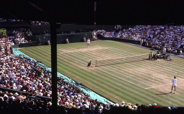 Wimbledon 1991 - Championship point, near to Wimbledon, Merton, Great Britain. Michael Stich has championship point to win Wimbledon.